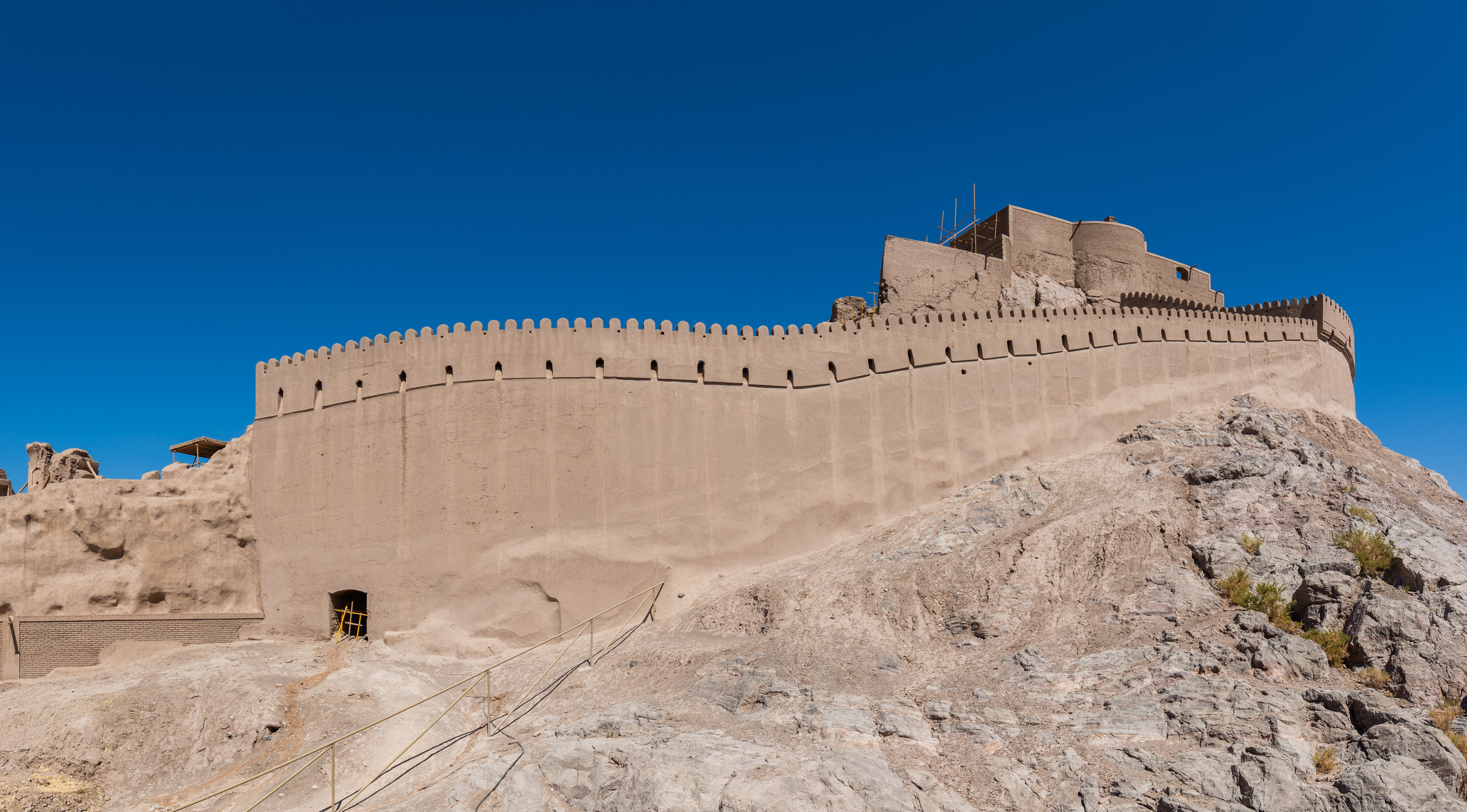 Fortress of Bam, Iran